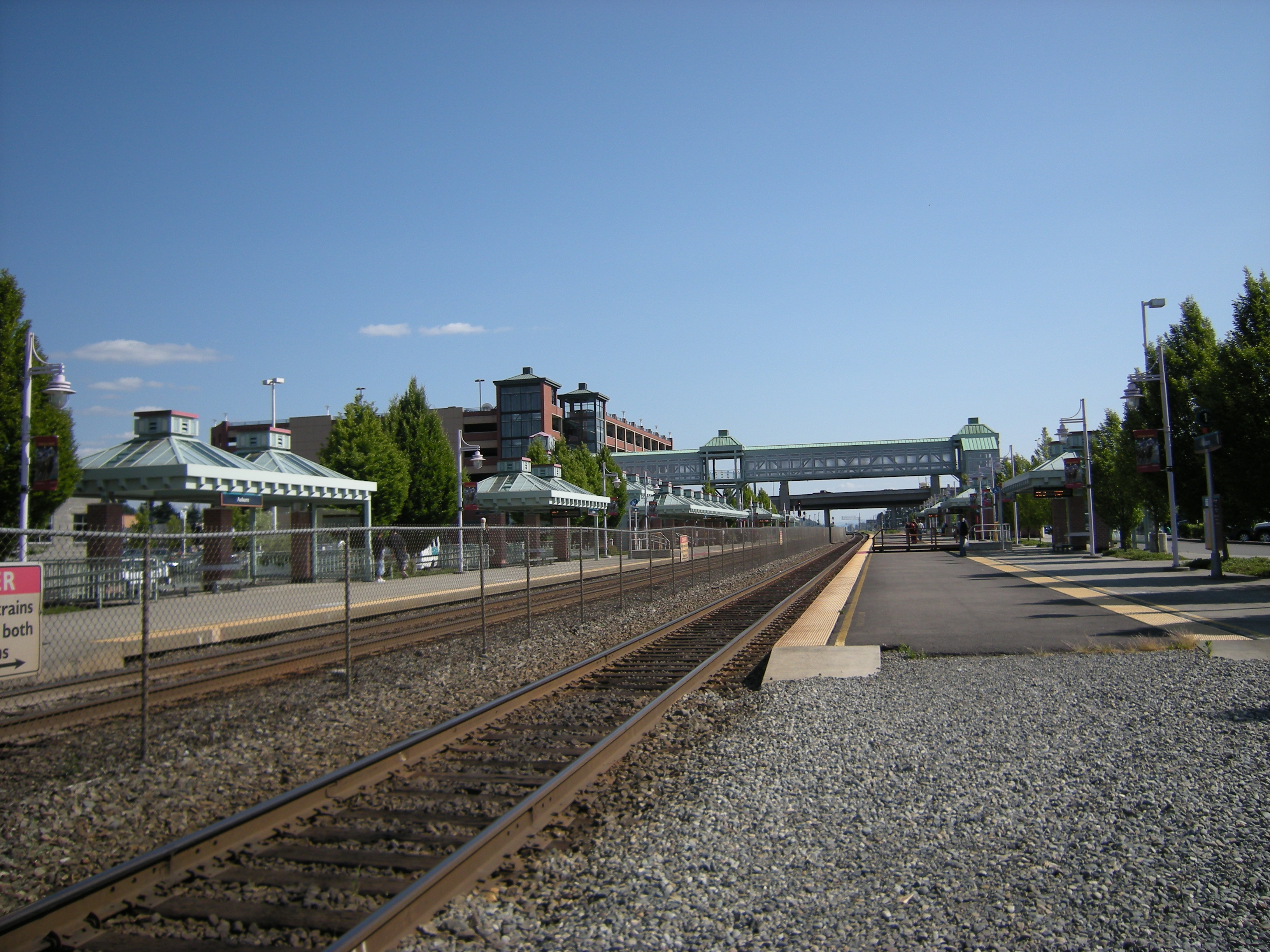 Sounder commuter rail station, Auburn, Washington.